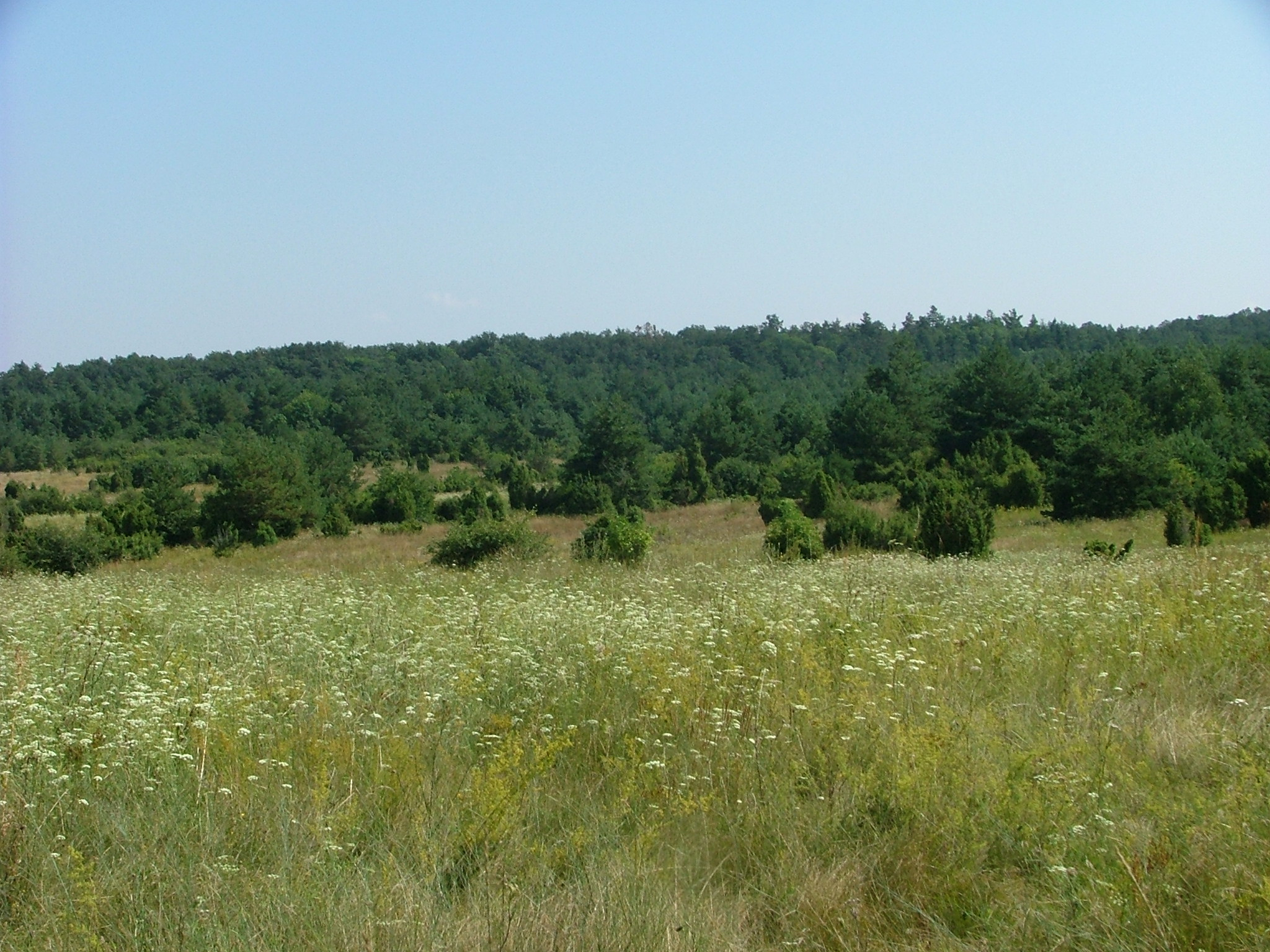 Fenyőfő, forest